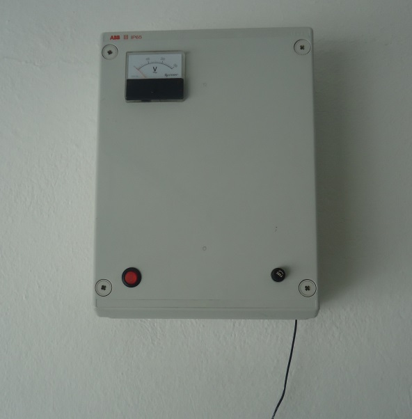 ozone generator